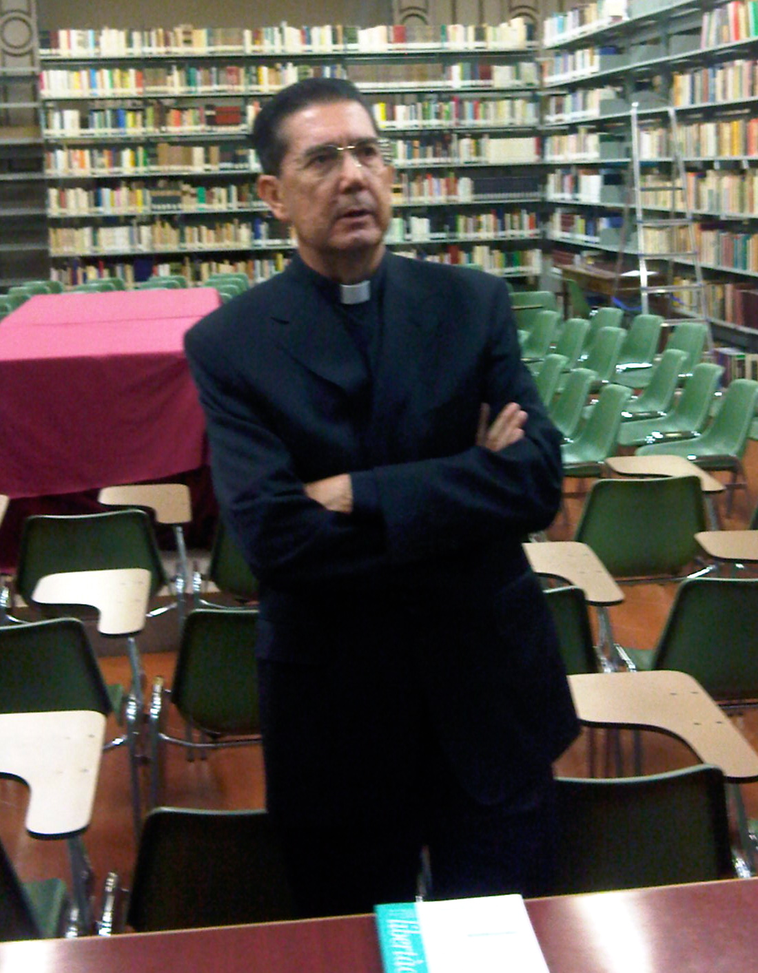 Miguel Ayuso Guixot MCCJ, President of Pontifical Institute of Arab and Islamic Studies (PISAI), Roma